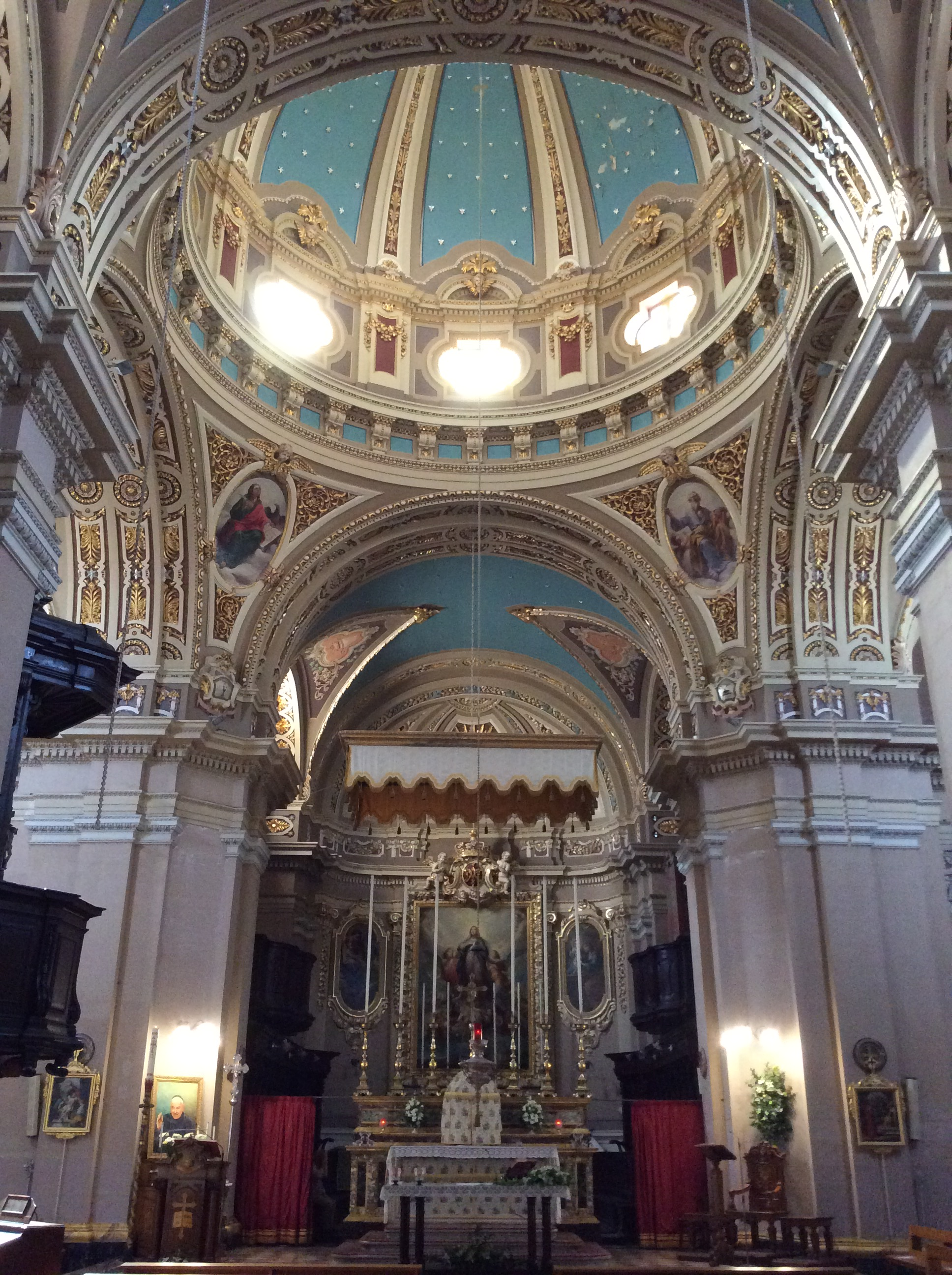 Gudja